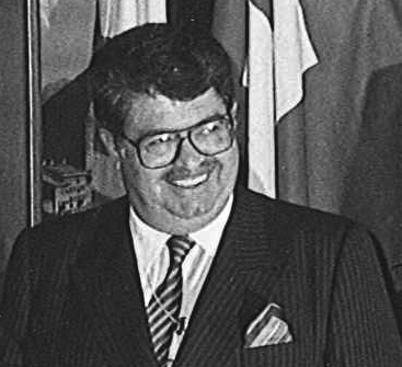 DAVOS/SWITZERLAND, 31 JAN 1988 - The Davos Declaration, a historic handshake between the Turkish and Greek Prime Ministers. (fltr) Kurt Furgler, Chairman of the Annual Meeting; Jean-Pascal Delamuraz, Swiss Federal Councillor; Prime Minister Andreas Papandreou of Greece; Prime Minister Turgut Özal of Turkey; Luzius Schmid, Mayor of Davos; and Klaus Schwab captured at the Davos Town Hall during the European Management Forum, the predecessor of the World Economic Forum in Davos in 1988.